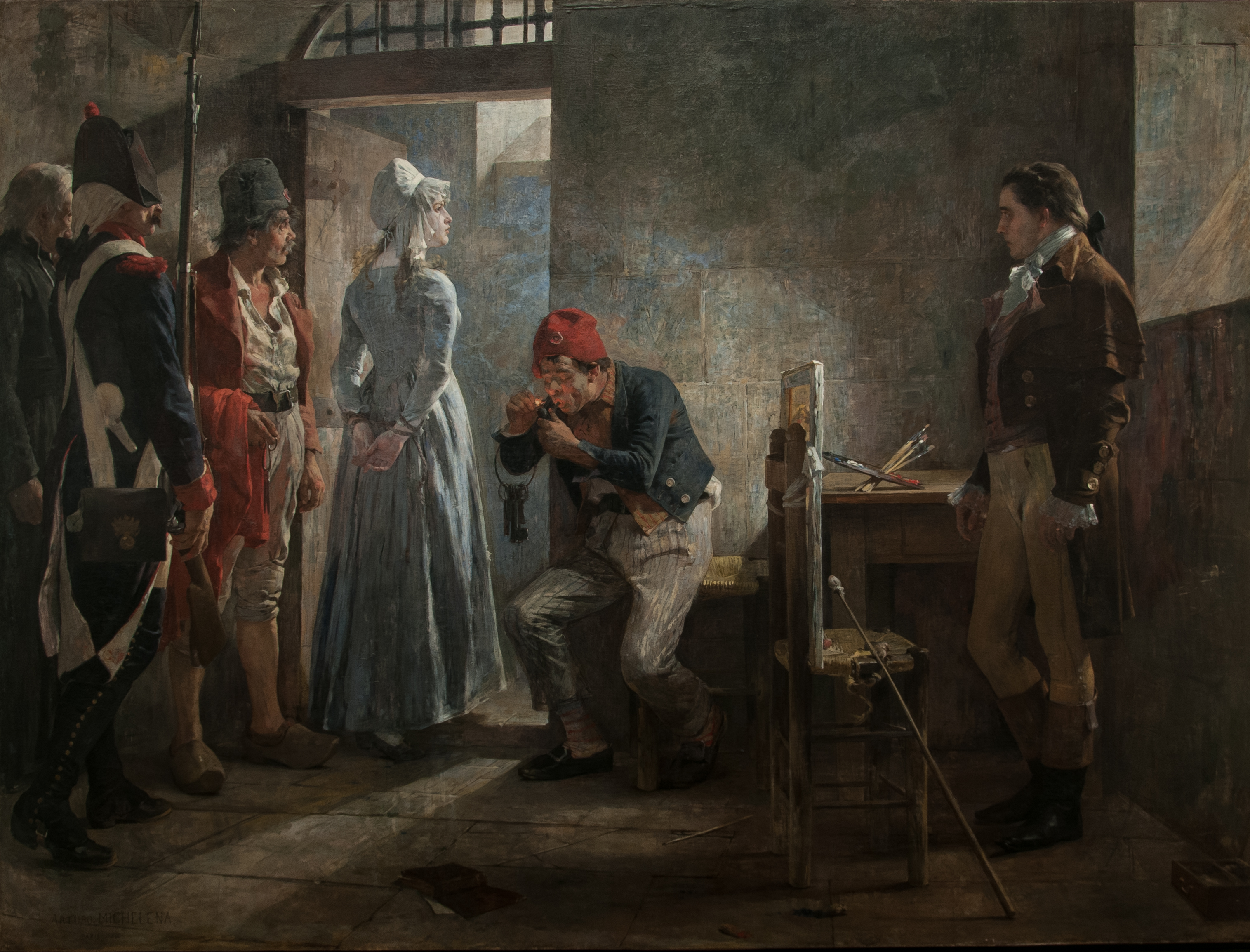 Carlota Corday 1889, Arturo Michelena